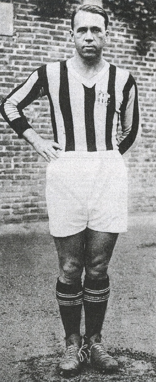 Italian footballer Virginio Rosetta with F.B.C. Juventus in the 1st half of the 1930s, poses outside the Juventus Ground ("Campo Juventus") in Turin, Italy.